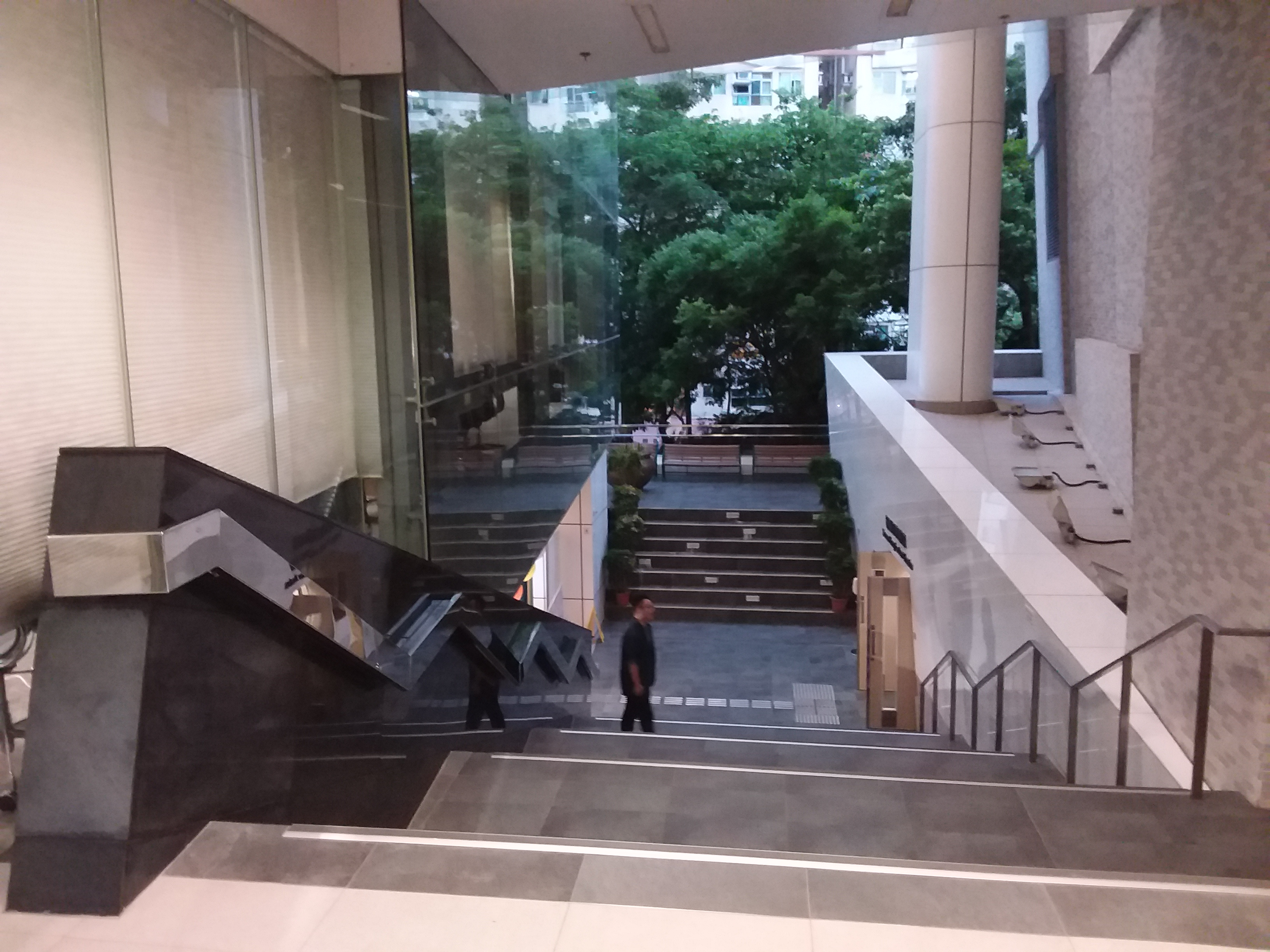 HK 何文田 Ho Man Tin main campus OUHK 香港公開大學 Open University of Hong Kong 牧愛街 Good Shepherd Street OUHK Sept 2019